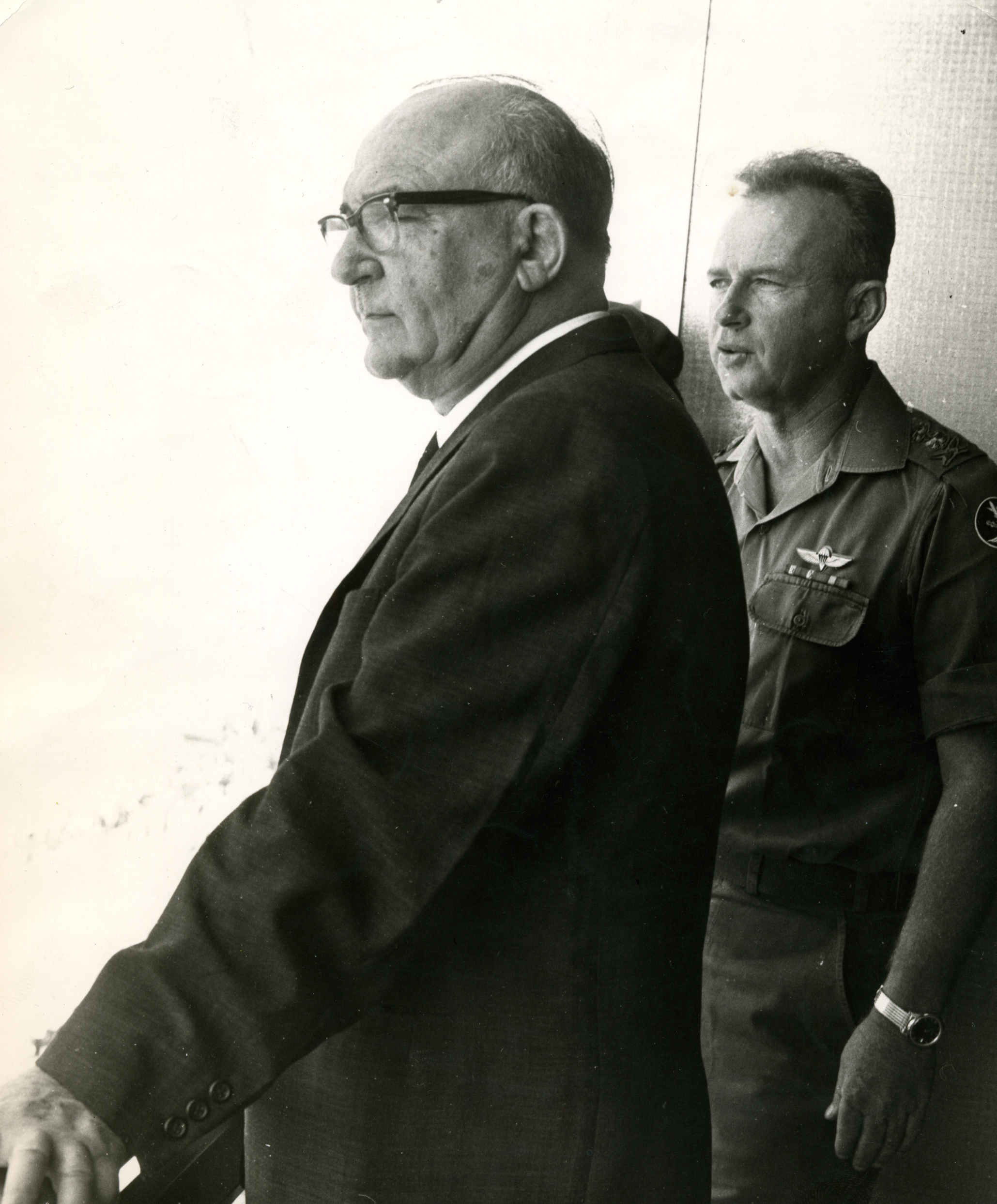 Levi Eschol. Prime Minister and Minister of Defense Levi Eshkol with Chief of Staff Yitzhak Rabin.